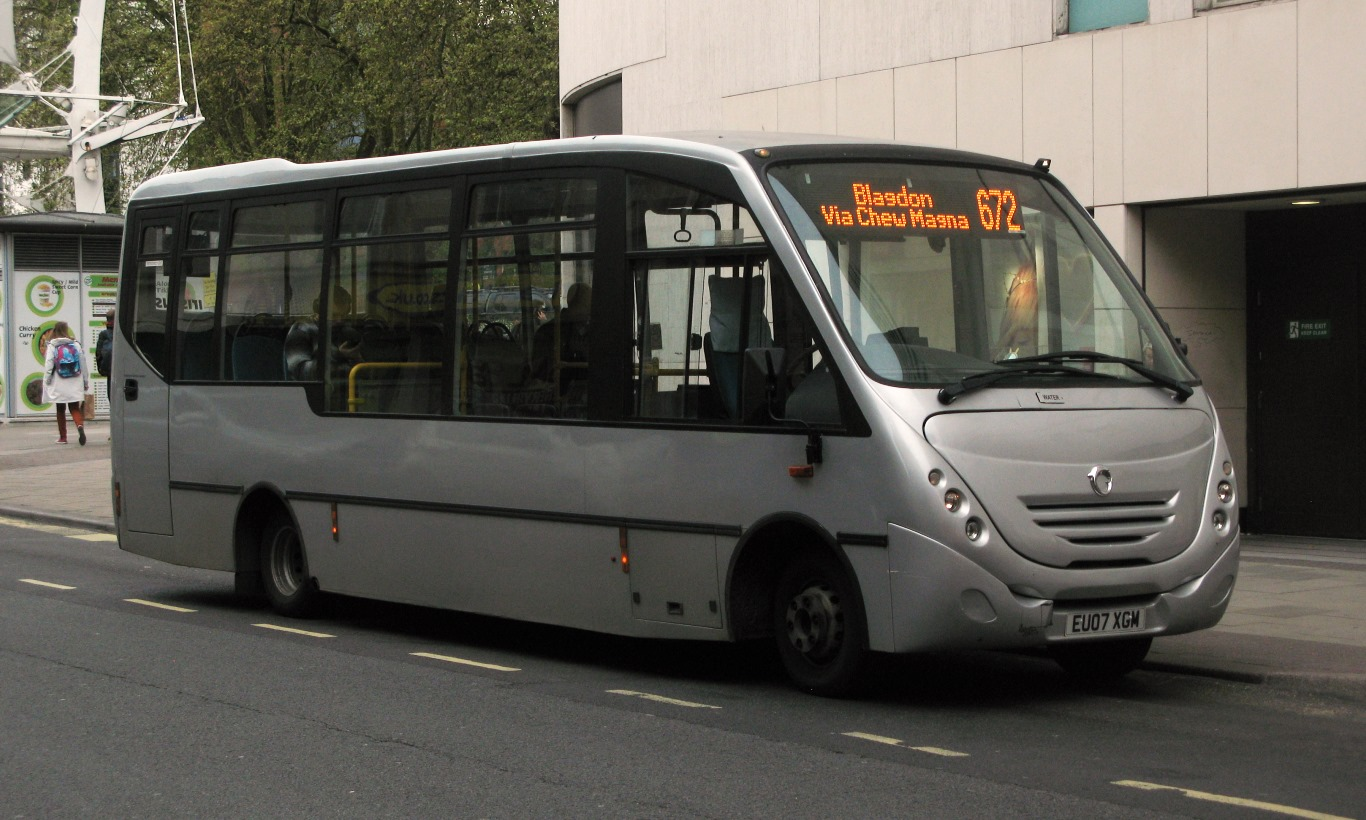 Bugler Coaches' EO07XGM is a rare Irisbus LoGo which originally operated in Harlow for Townlink Busses. It is now in Bristol on route 672 to the villages of the Chew Valley in Somerset.